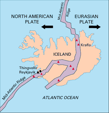 Map showing the Mid-Atlantic Ridge splitting Iceland and separating the North American and Eurasian Plates. The map also shows Reykjavik, the capital of Iceland, the Thingvellir area, and the locations of some of Iceland's active volcanoes (red triangles), including Krafla.